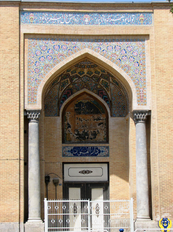 Eastern gate of Dar ul-Funun in the Naser Khopsrow street.